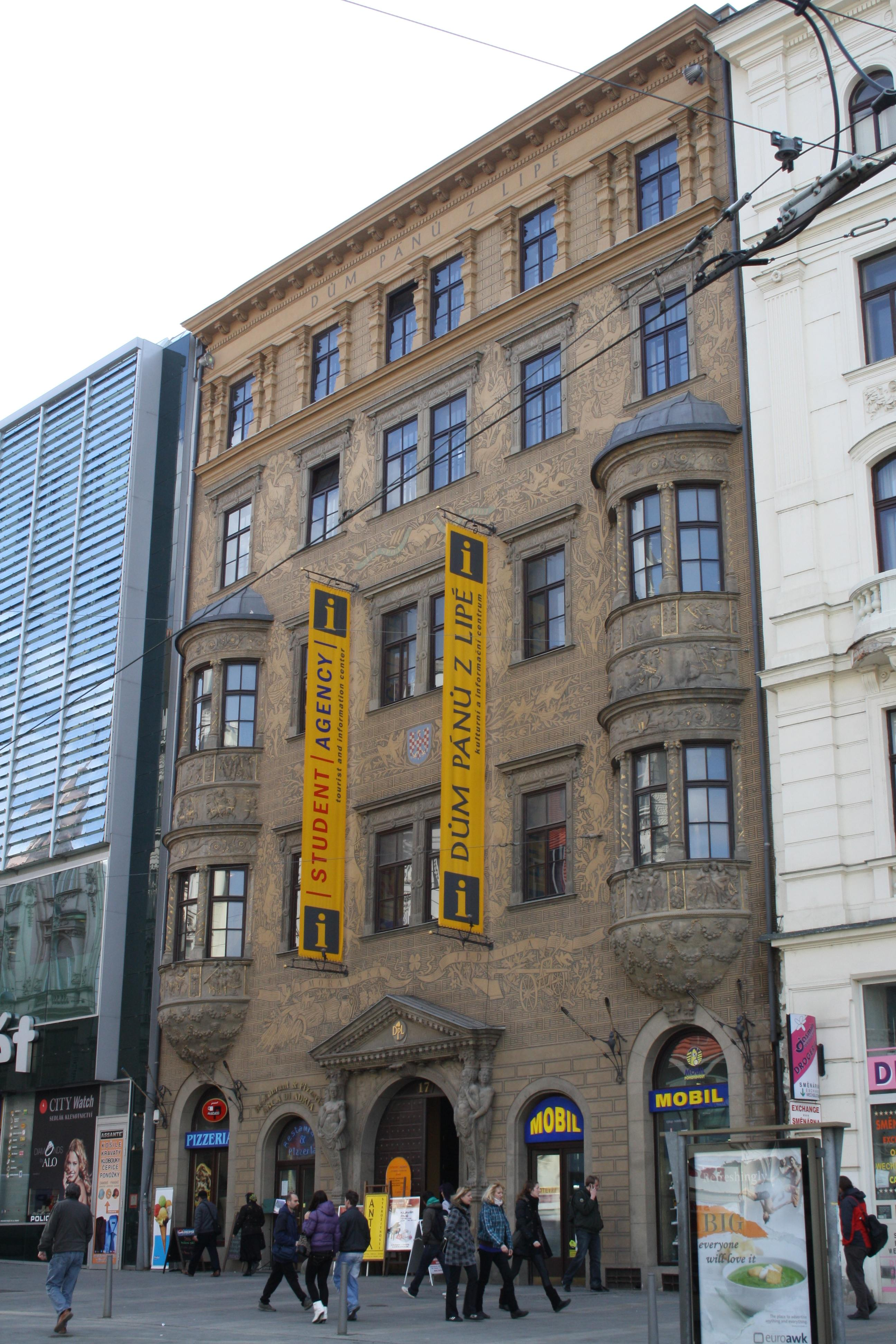 Dům pánů z Lipé at spring 2010.